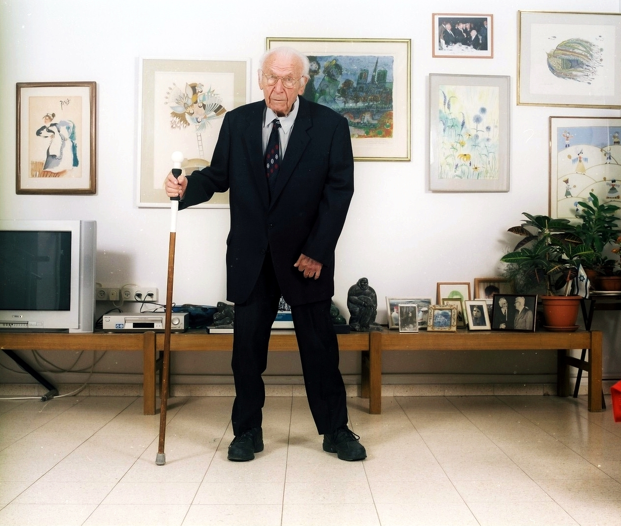 Art of Israel